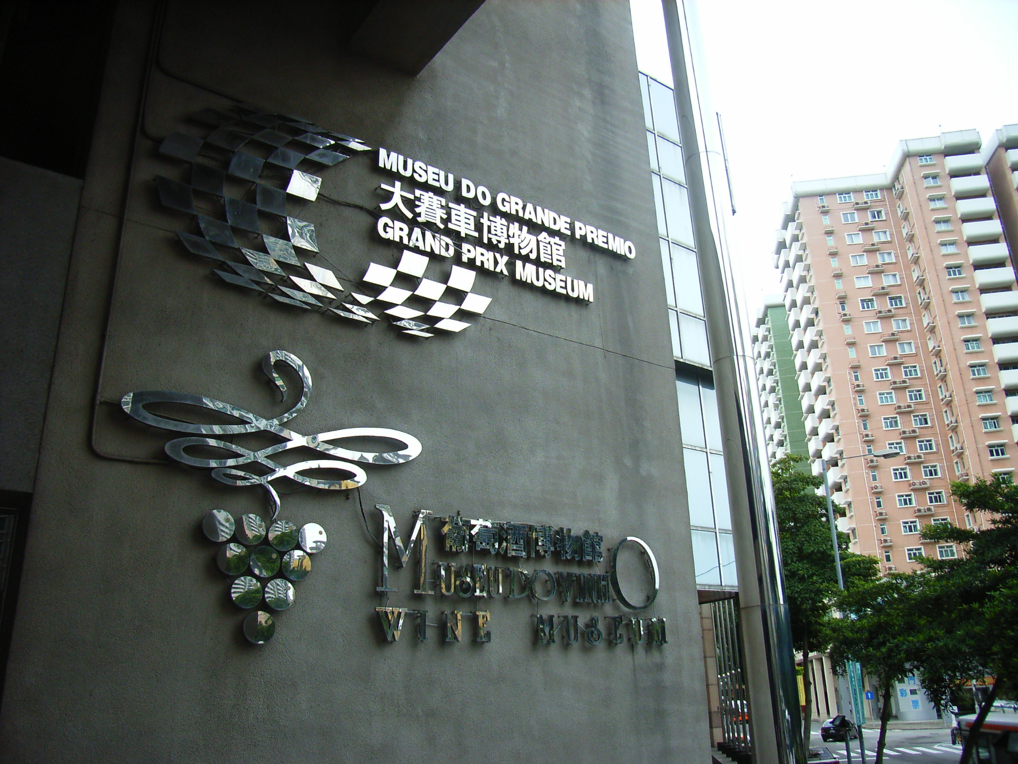 澳門的觀光點 大賽車博物館 及 葡萄酒博物館 Macau sightseeing - the Grand Prix Museum & the Wine Museum